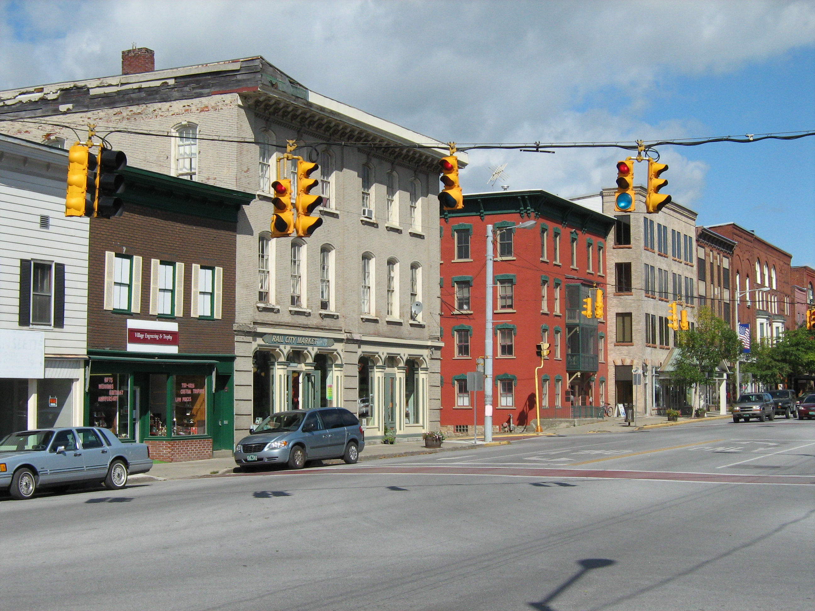 Downtown St. Albans Historic District (intersection of Main and Lake Streets)